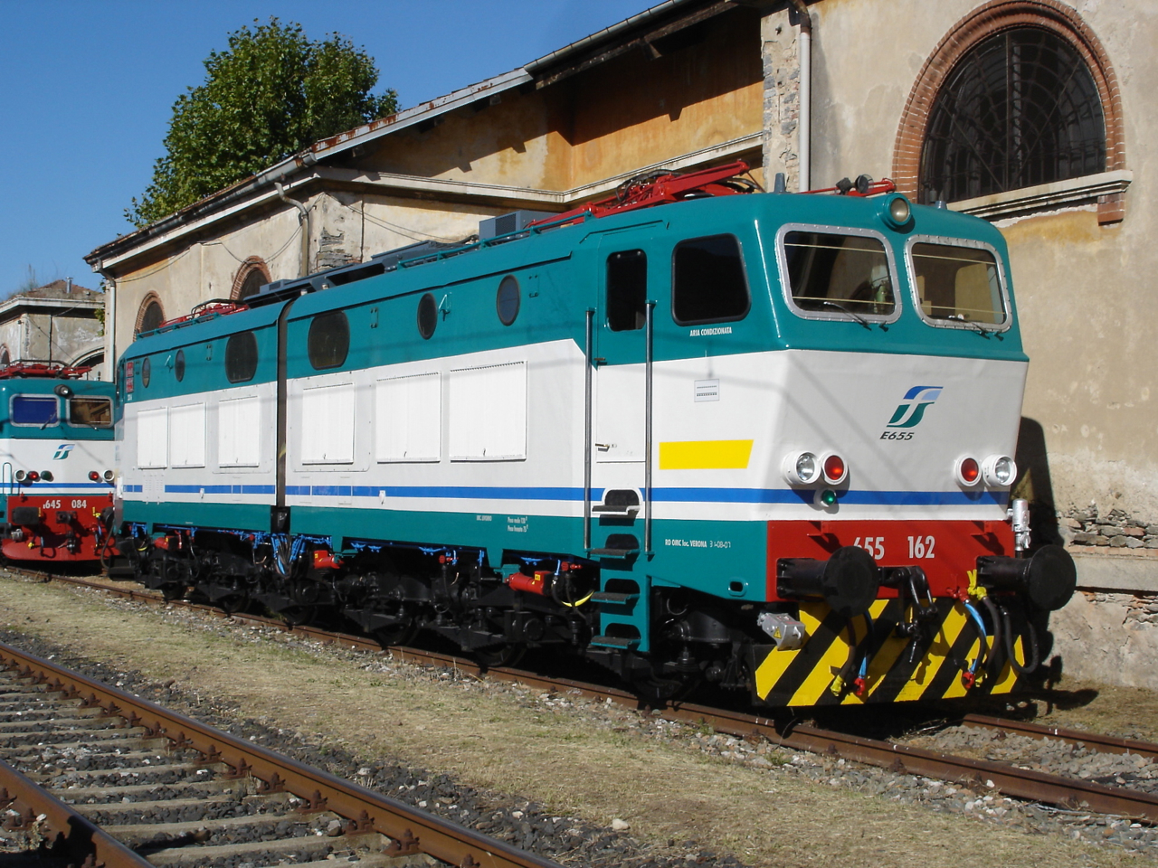 FS E.655.162 at Luino train station.